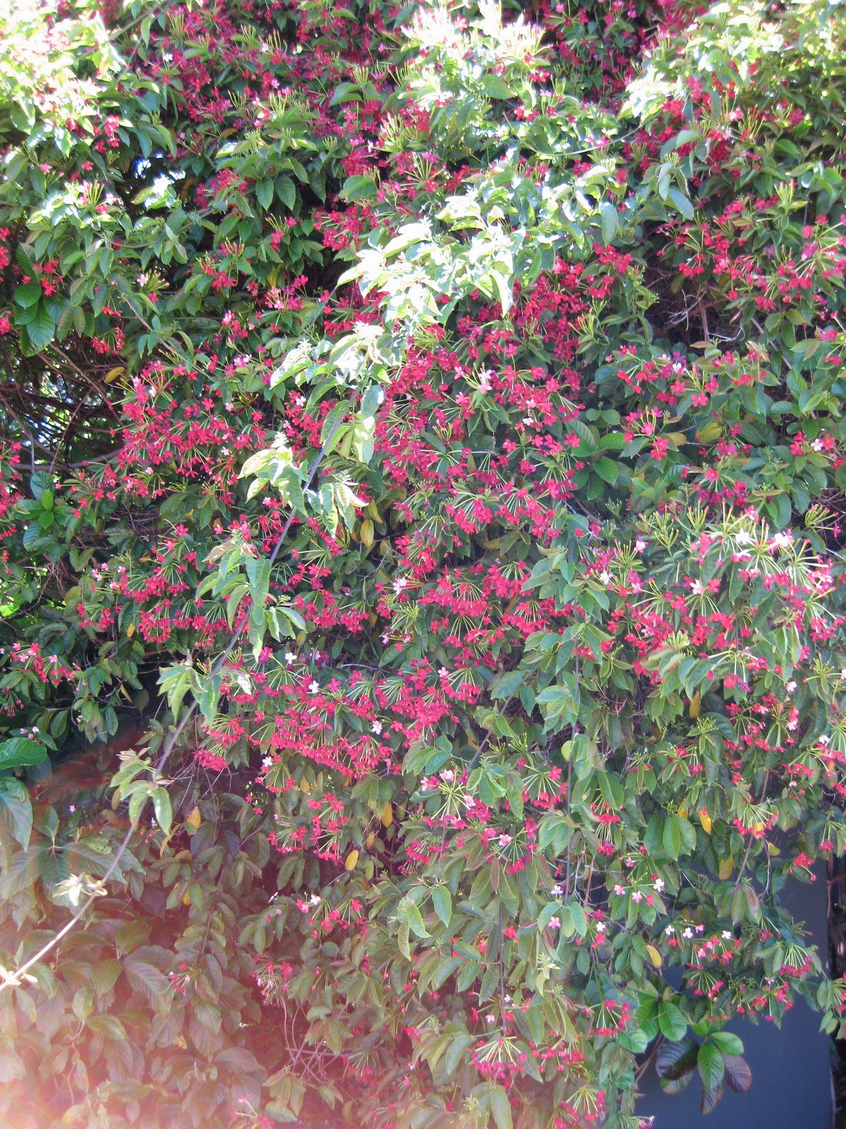 Photographed at the Royal Botanic Gardens Sydney (Australia) in December